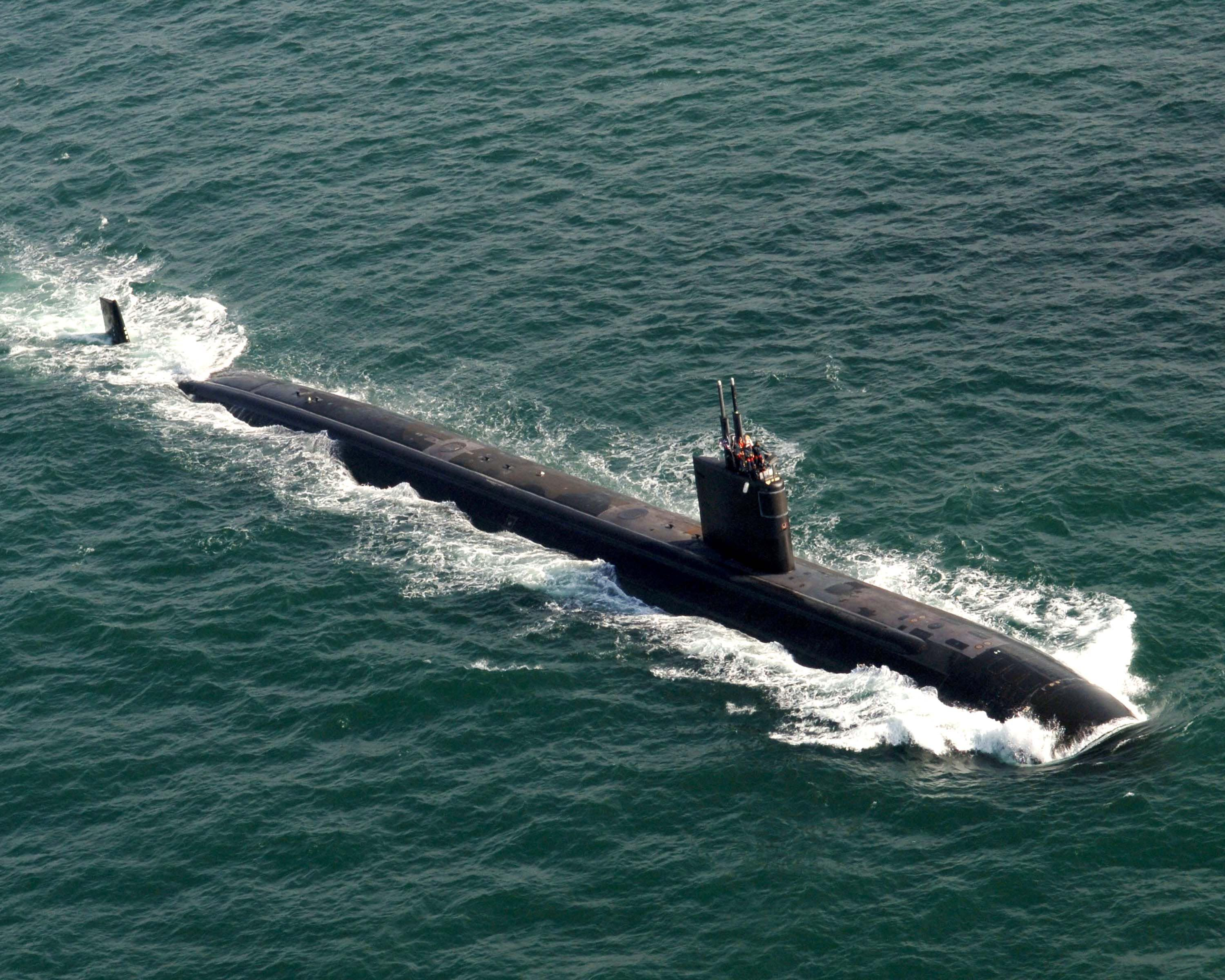 San Diego (Feb. 15, 2006) - The Los Angeles-class fast attack submarine USS Asheville (SSN 758), gets underway in preparation of conducting high-speed surface drills off the coast of Southern California. Asheville, assigned to Submarine Squadron Eleven, is home ported in Naval Base Point Loma, Calif. U.S. Navy photo by Photographer’s Mate 2nd Class Scott Taylor (RELEASED)